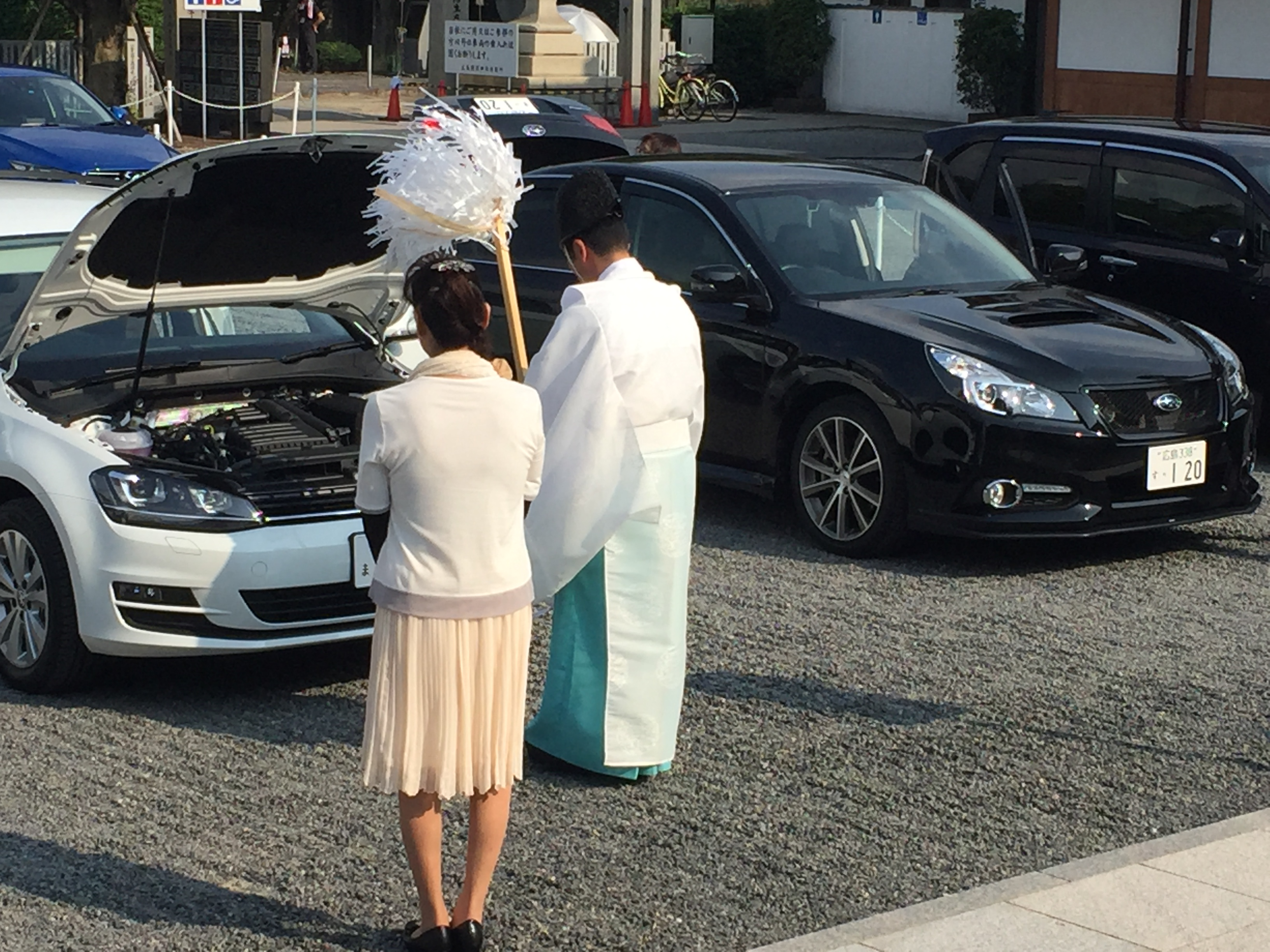 Shinto priest blessing car, Hiroshima